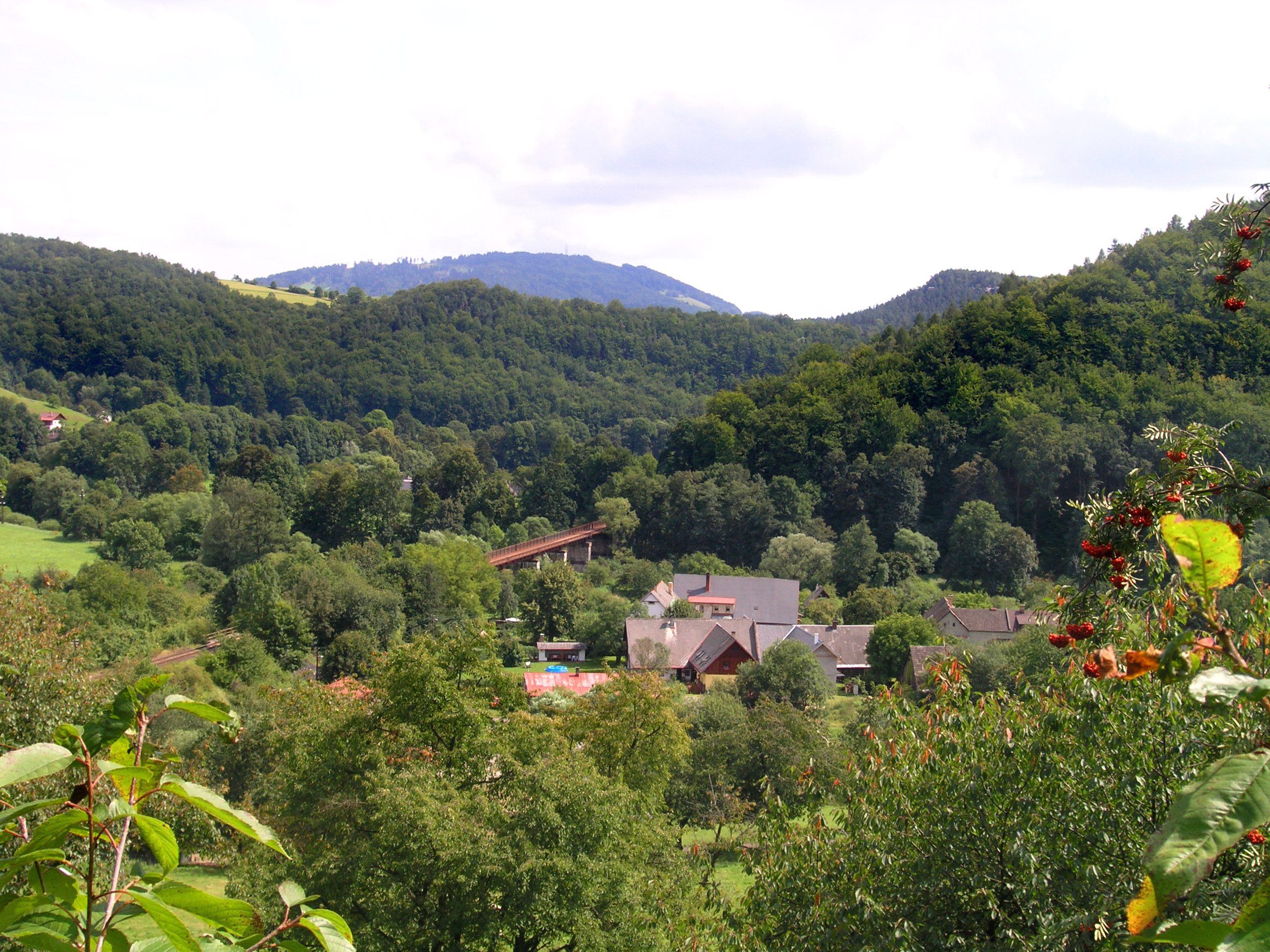 Rakousy by Turnov, Czech Republic